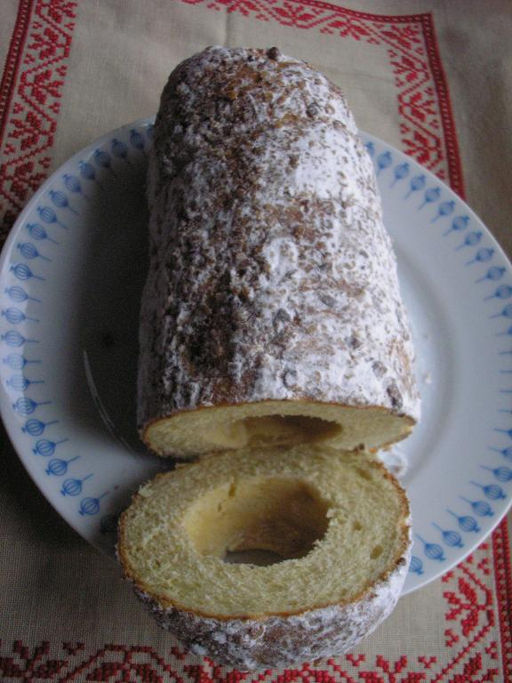 skalicky trdelnik